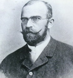 Photo of Matouš Jezbera